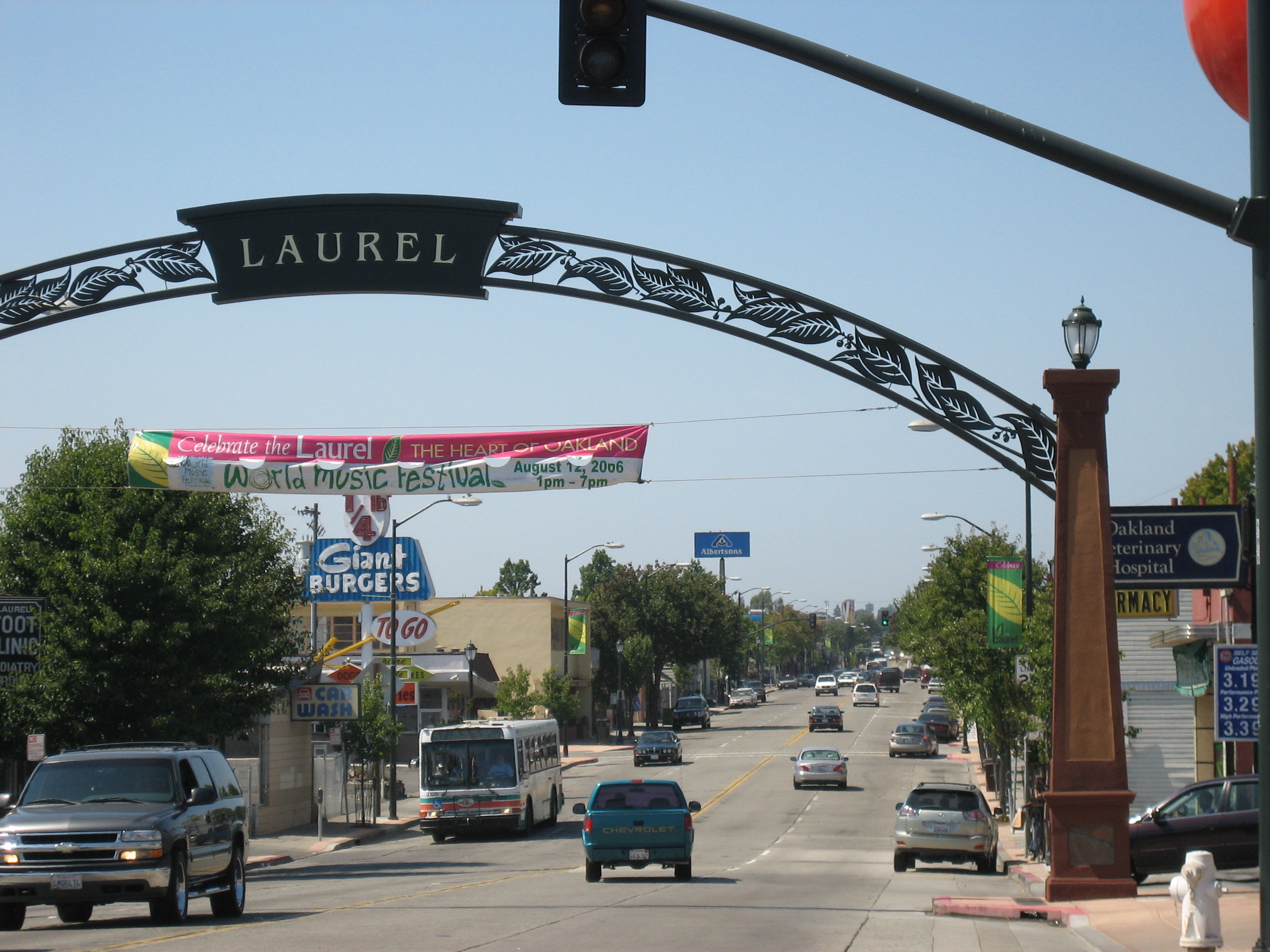 Laurel Neighborhood, with entry arch sign, in Oakland, California. Category:Images of Oakland